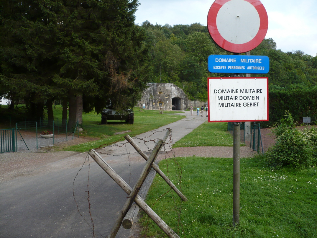 Entrance to Fort Eben-Emael in Belgium, July 2007. DeMinimis applies here. This is Bloc 1, a two level concrete blockhouse, seen from the south (i.e. from the approach road outside the fortress), with three embrasures visible to the left of the entrance. The lowest one mounted a 60mm anti tank gun, the one directly above it a machine gun, and the one offset to the right a searchlight. Garrison was 5 NCOs and 23 soldiers. Contemporary photos show vegetation was much thinner when the fortress was in use.